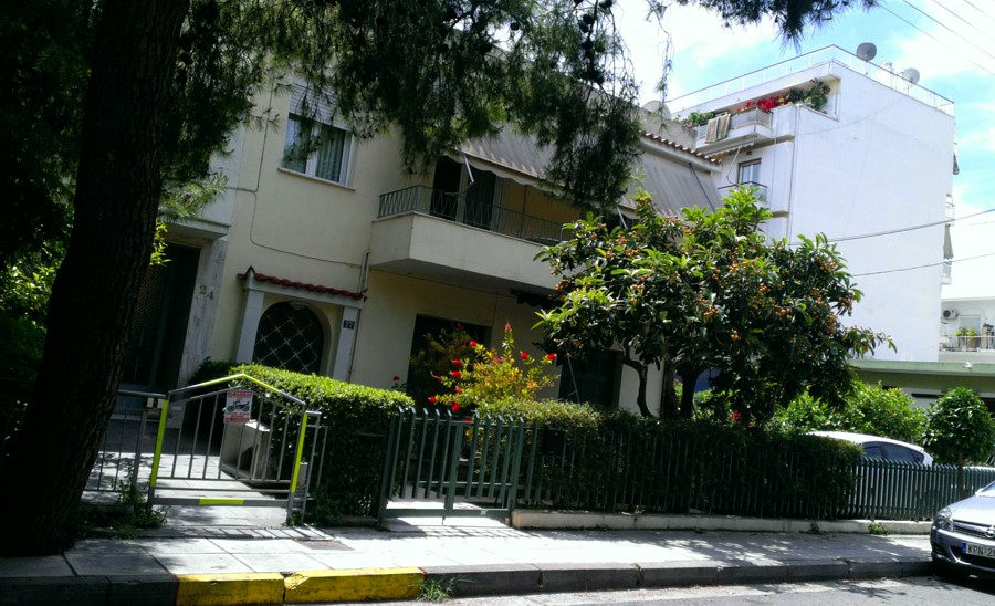 Ellinoroson